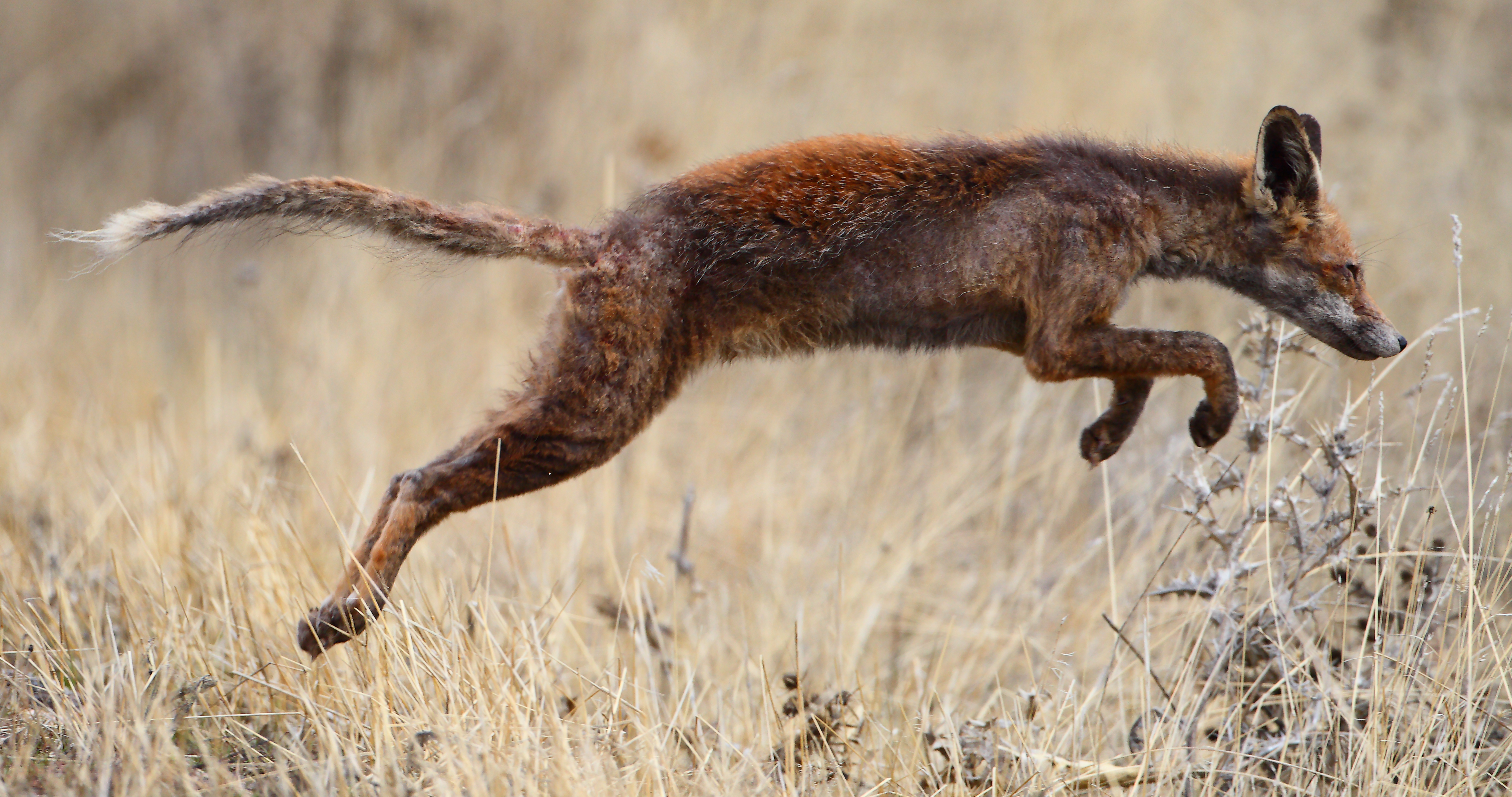 Vulpes vulpes, Red Fox, Zorro, affected by Sarcoptes scabiei